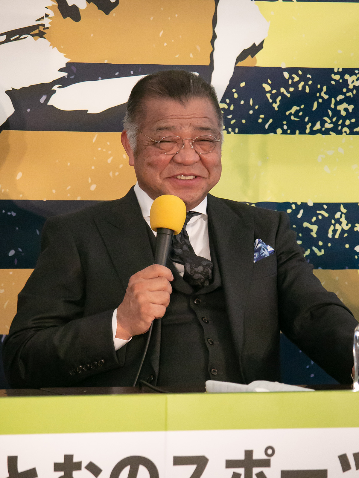 Masayuki Kakefu in Hanshin Racecourse.